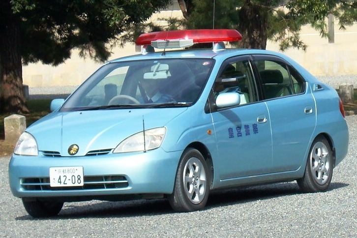 Toyota Prius of the Imperial Guard patorols the Kyoto Palace, Japan